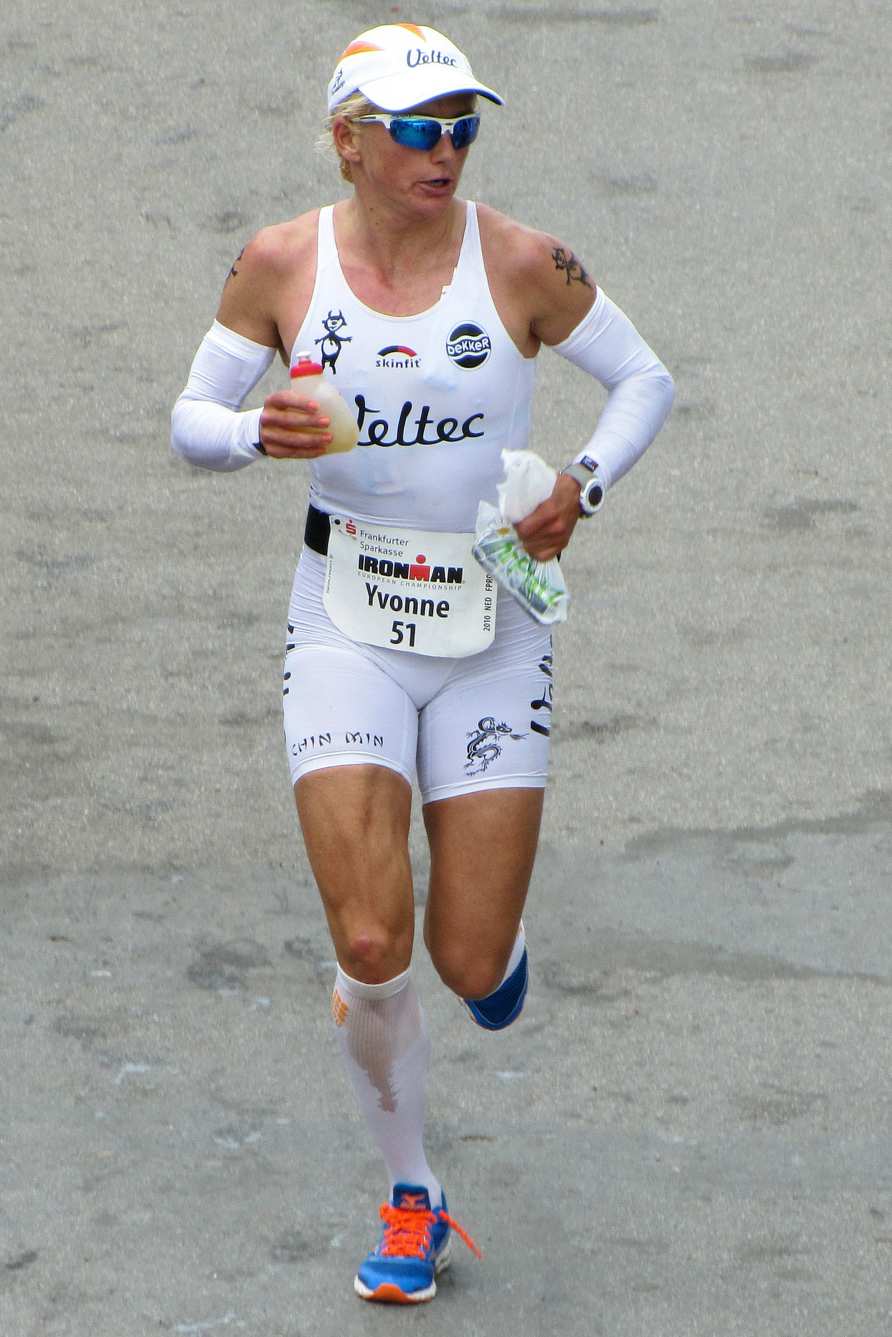 Yvonne van Vlerken, 2010, Ironman Germany in Frankfurt am Main.